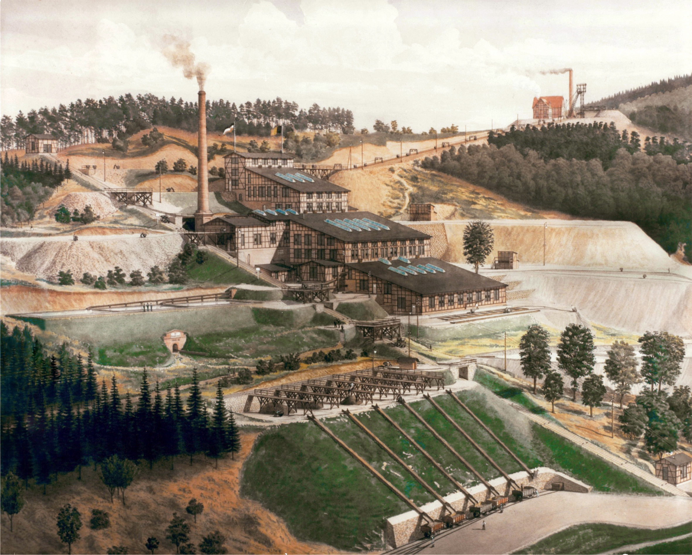 watercolour of Wilhelm Scheiner